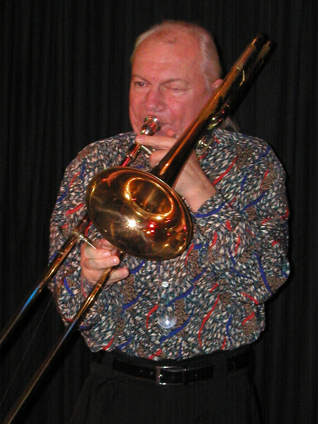 German trombone player Conny Bauer in Club W71 in Weikersheim